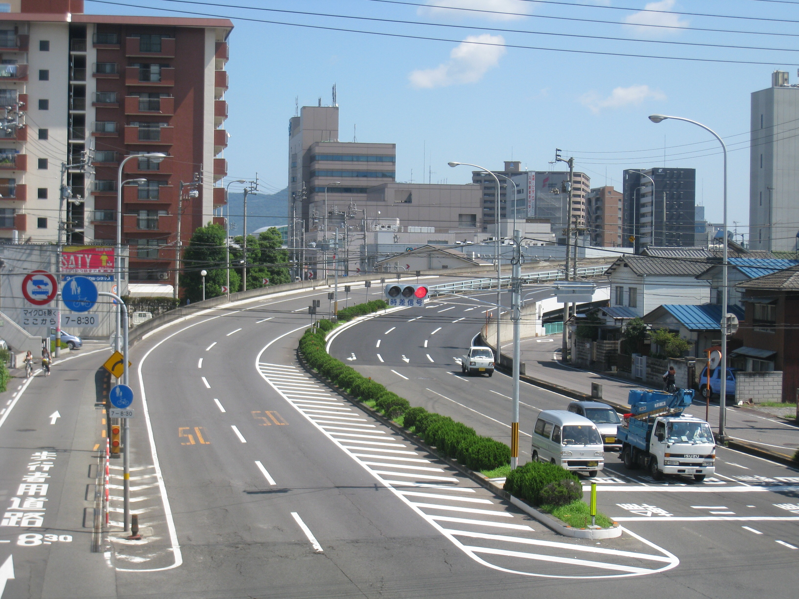 Sanuki-hamakaido in Hamano-cho view east